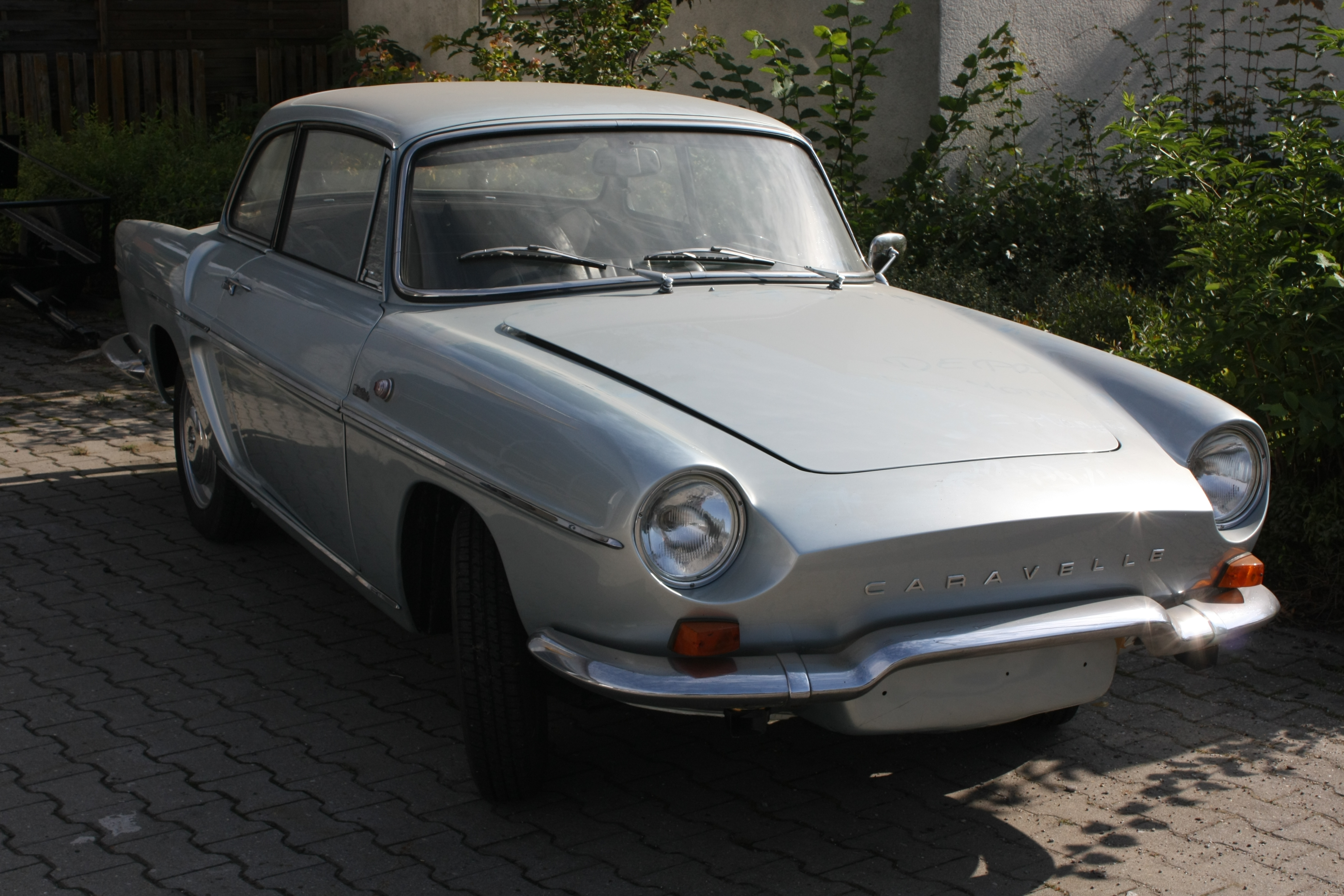 Renault Caravelle Coupé